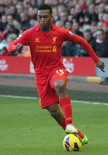 Daniel Sturridge playing for Liverpool FC against Swansea at Anfield Road on 17 February 2013.